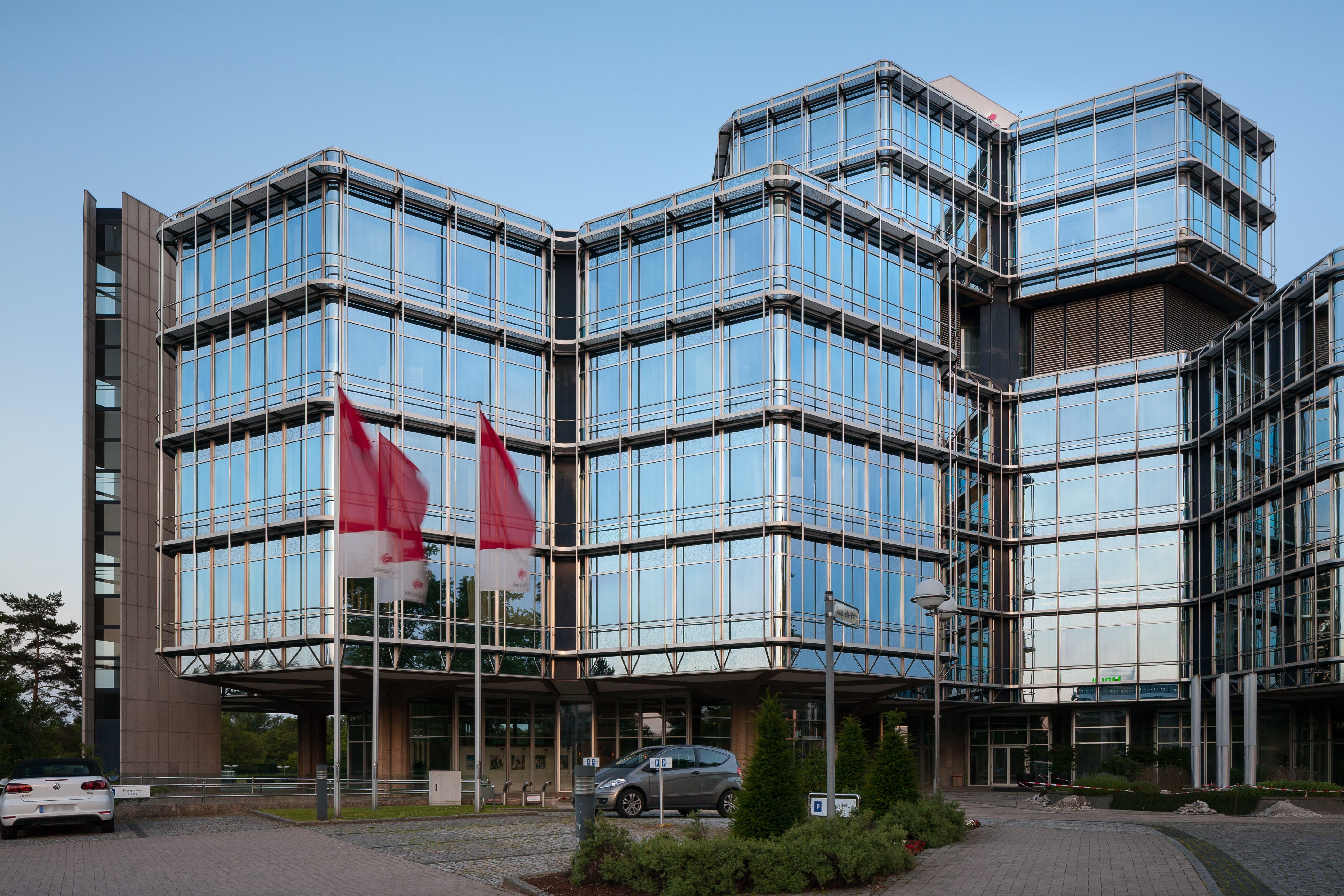 Office building of Swiss Life Select insurance company (formerly AWD), located at Kirchhorster Strasse and Buchholzer Strasse in Hanover, Germany.